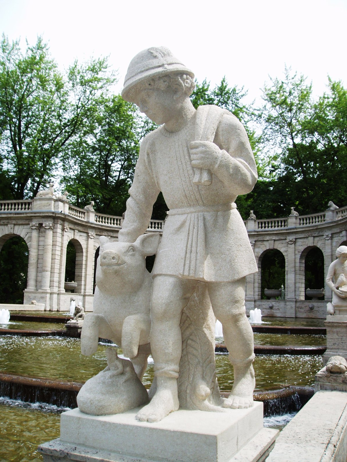 Friedrichshain locality of Berlin: Märchenbrunnen (fairy tale fountain) in the Volkspark Friedrichshain park, sculpture on the Brothers Grimm fairy tale «Hans in Luck» by Ignatius Taschner.